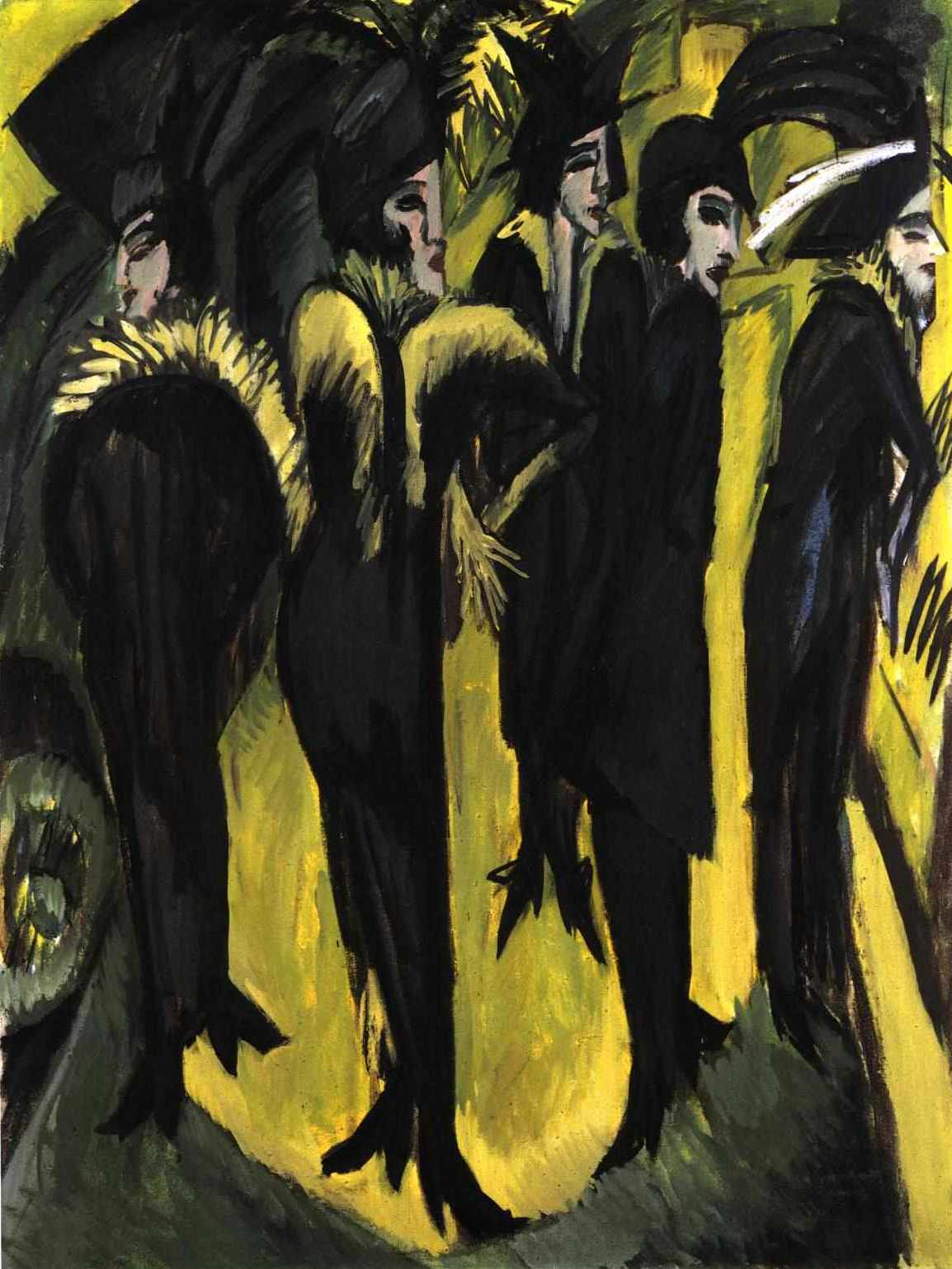 Ernst Ludwig Kirchner, Fünf Frauen auf der Strasse